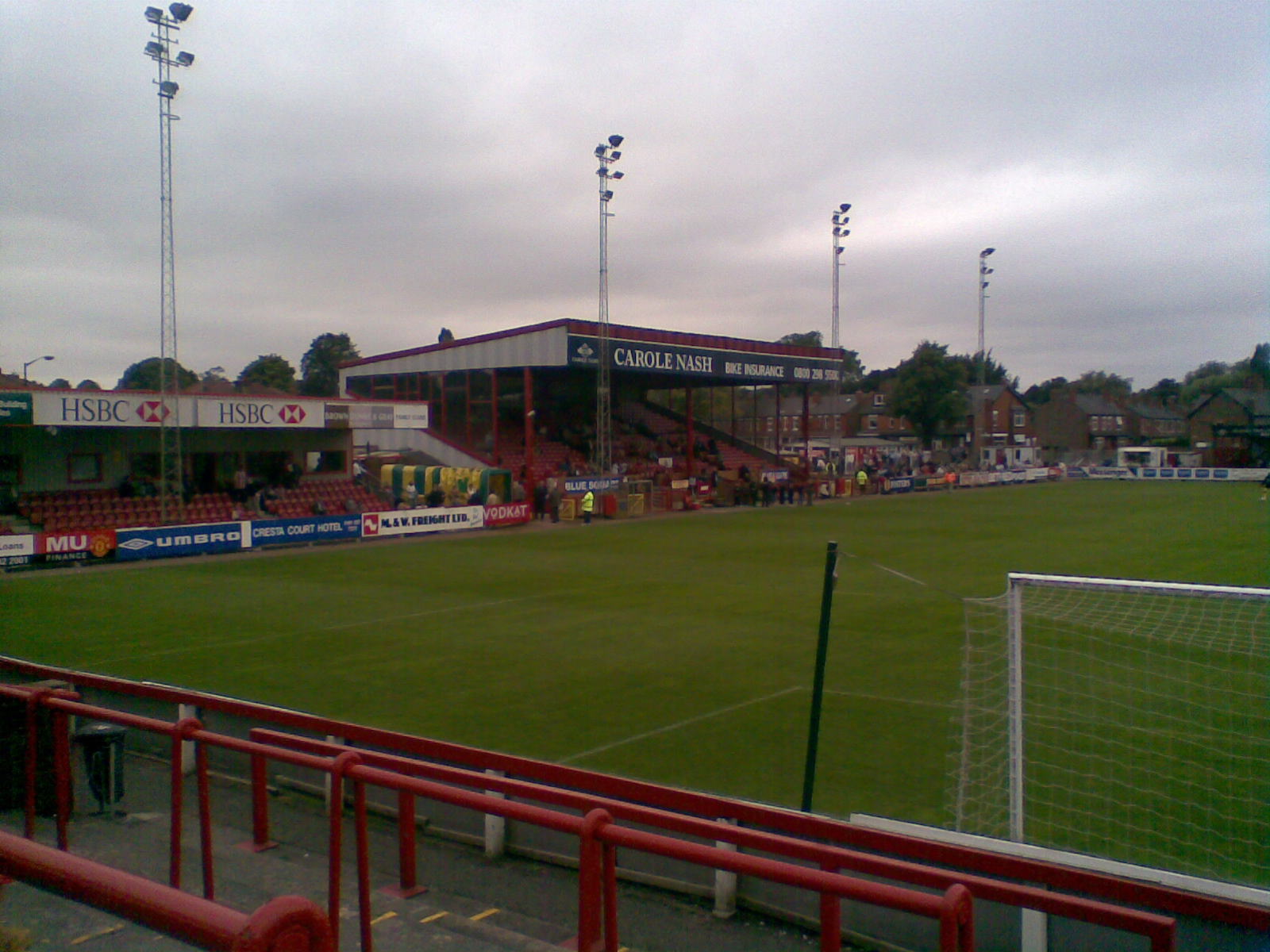 Photograph of the main stand taken in August 2007.